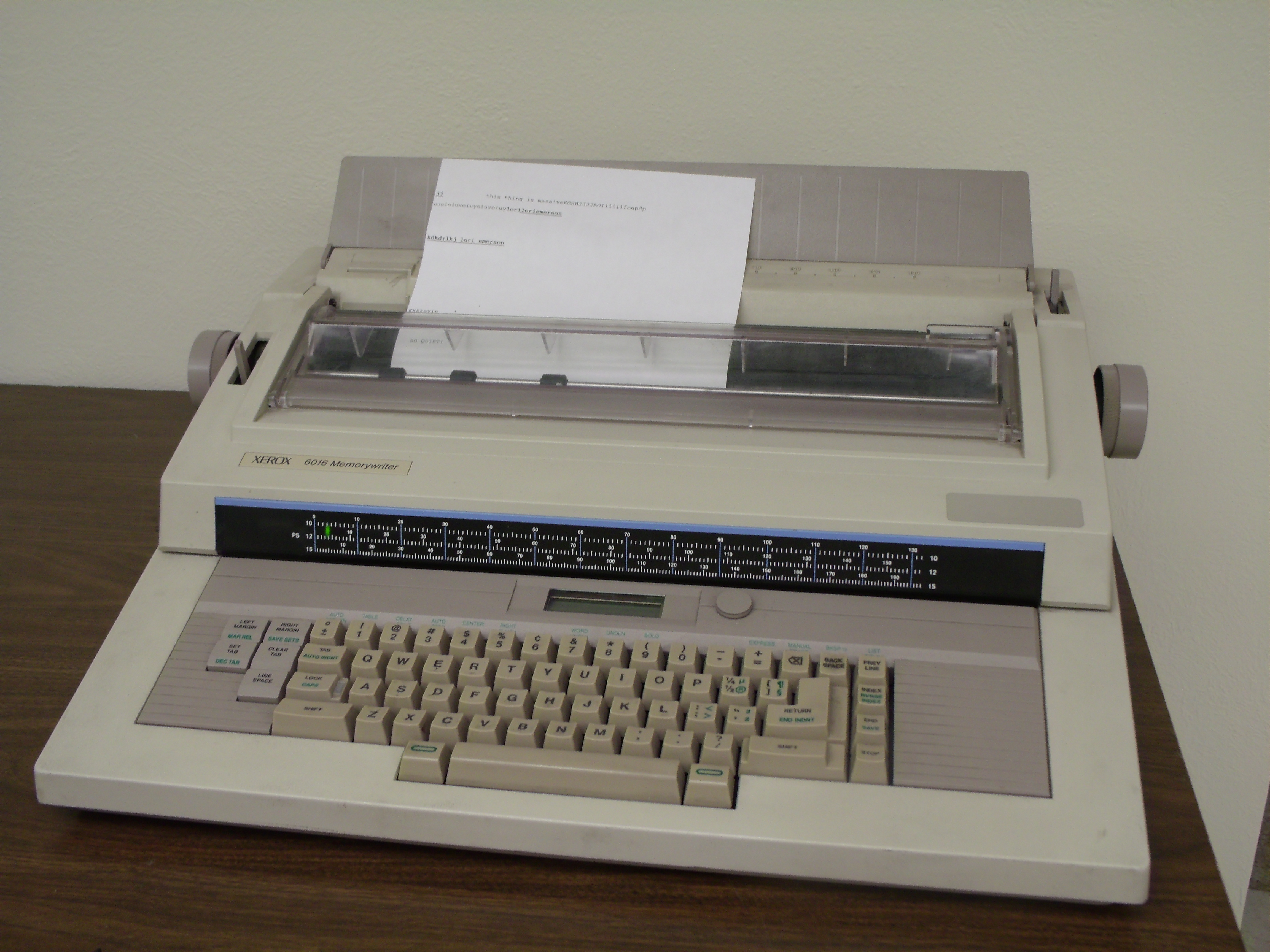 Product Name: XEROX 6016 Memorywriter Word Processor User Name: XEROX 6016 Memorywriter Word Processor Manufacturer: XEROX Model: 6016. Year: N/A